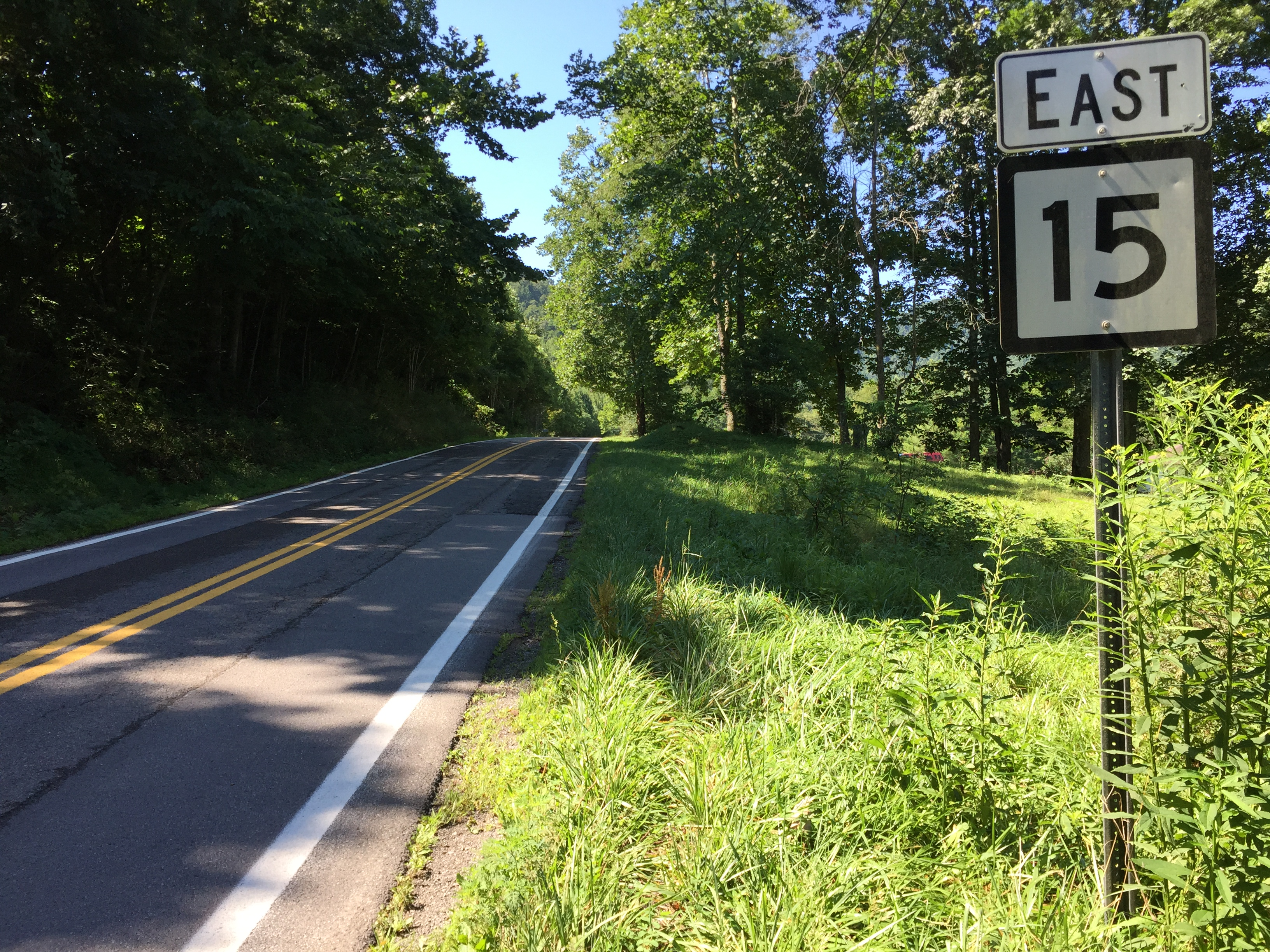 View east along West Virginia State Route 15 at Webster County Route 5/3 in Guardian, Webster County, West Virginia